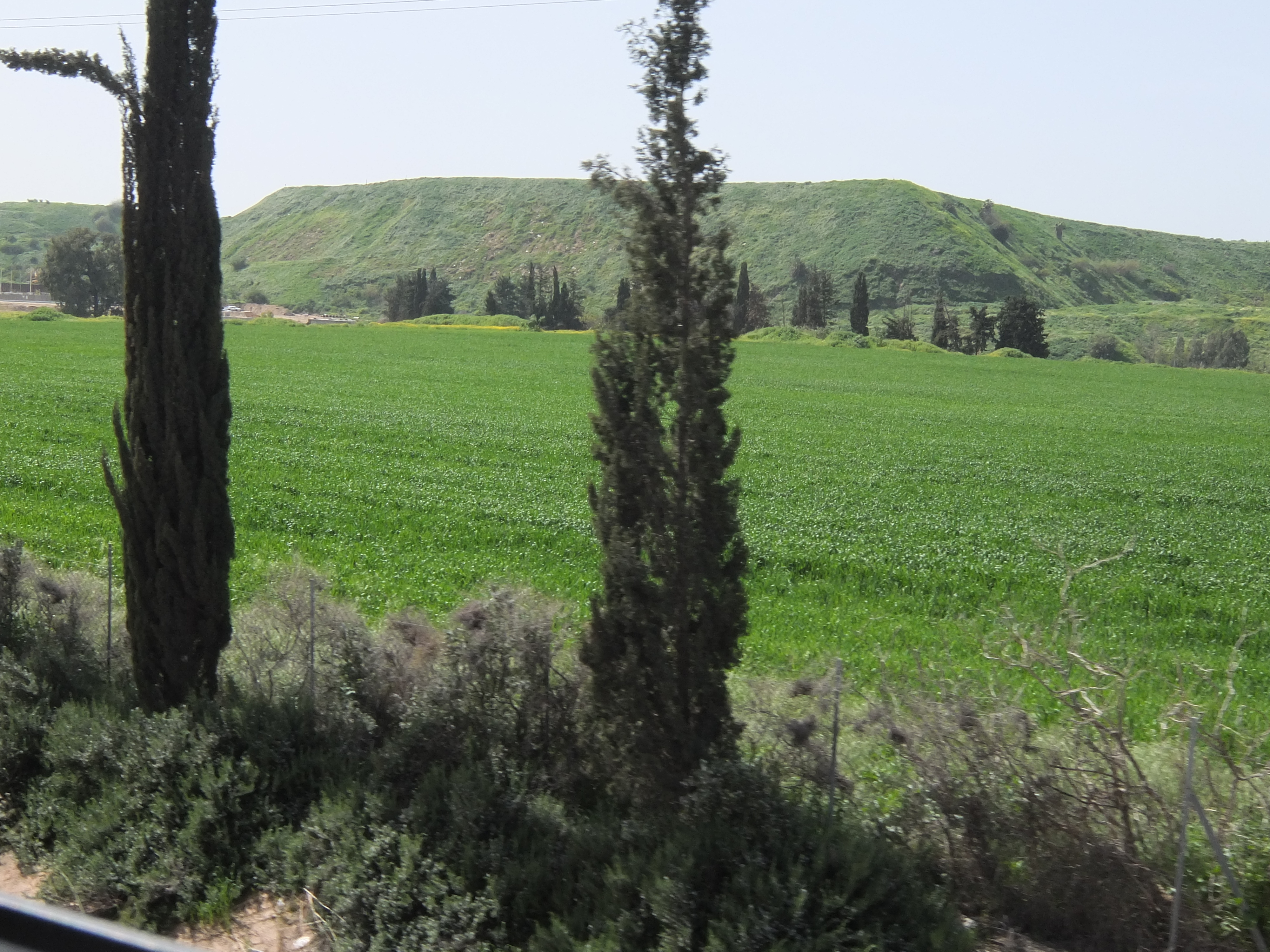 Landfill in Israel, where the old village of Benei Barak used to stand